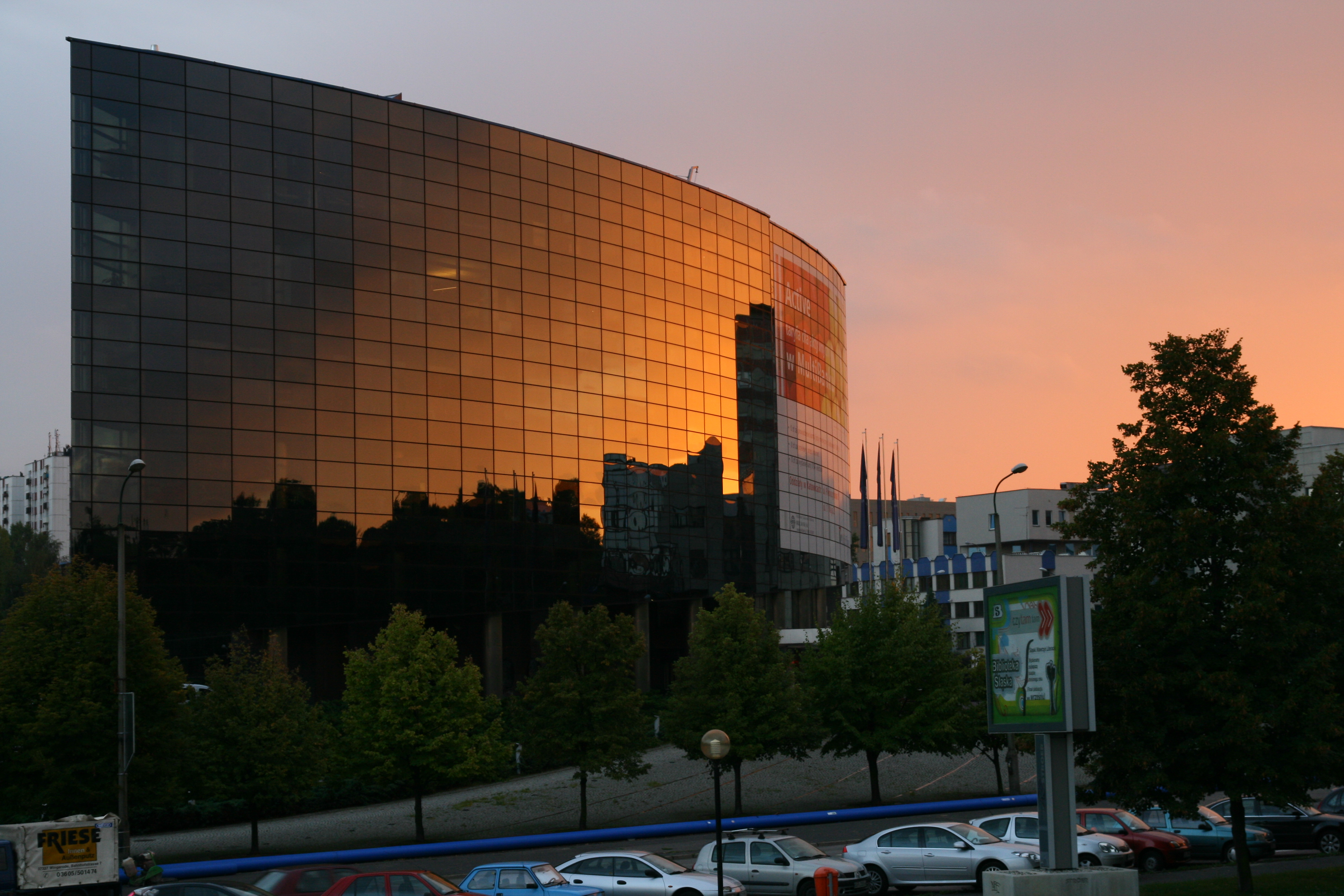 BRE Bank in Katowice (Poland).